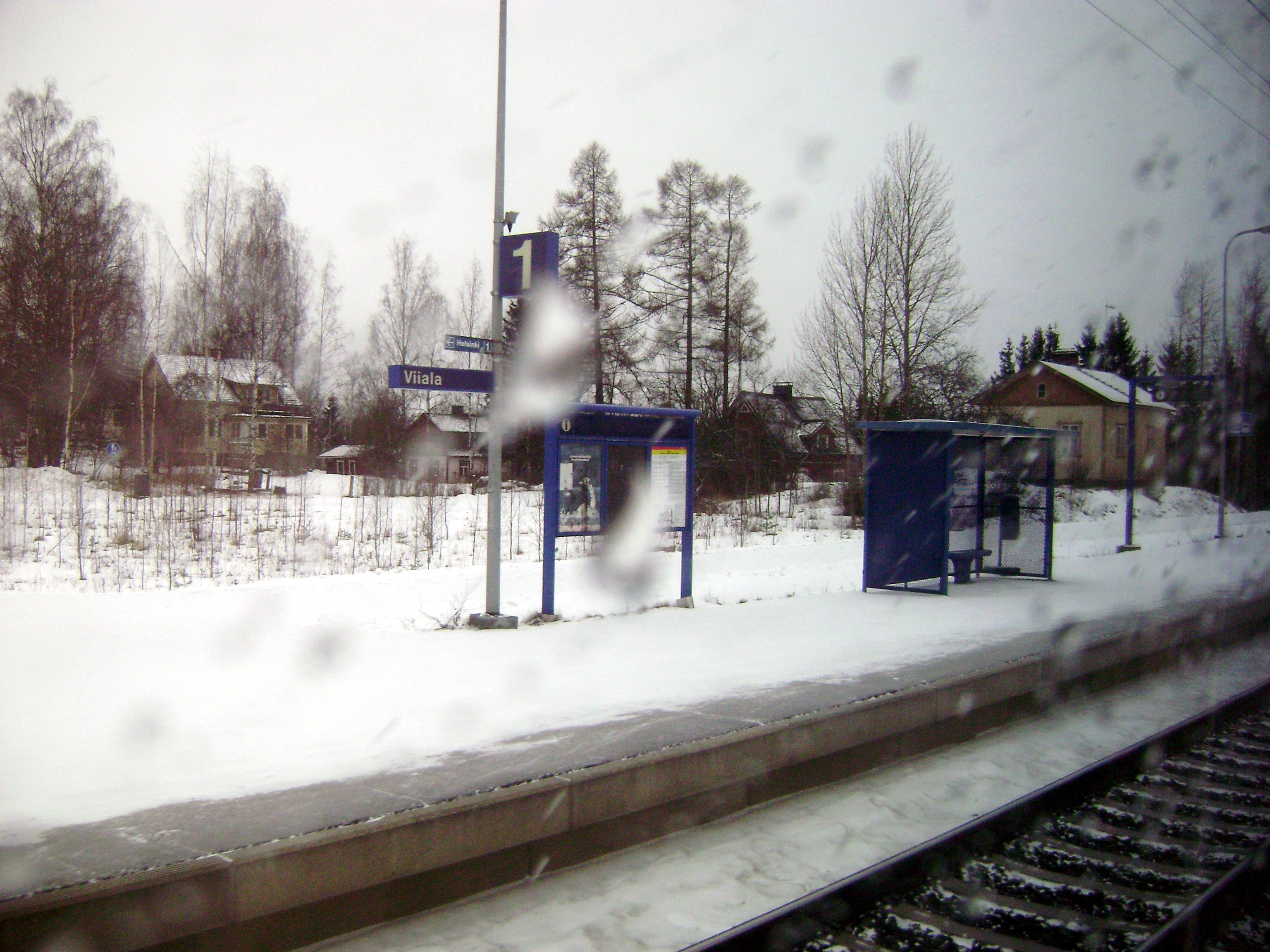 Viiala railway station platform in Akaa, Finland